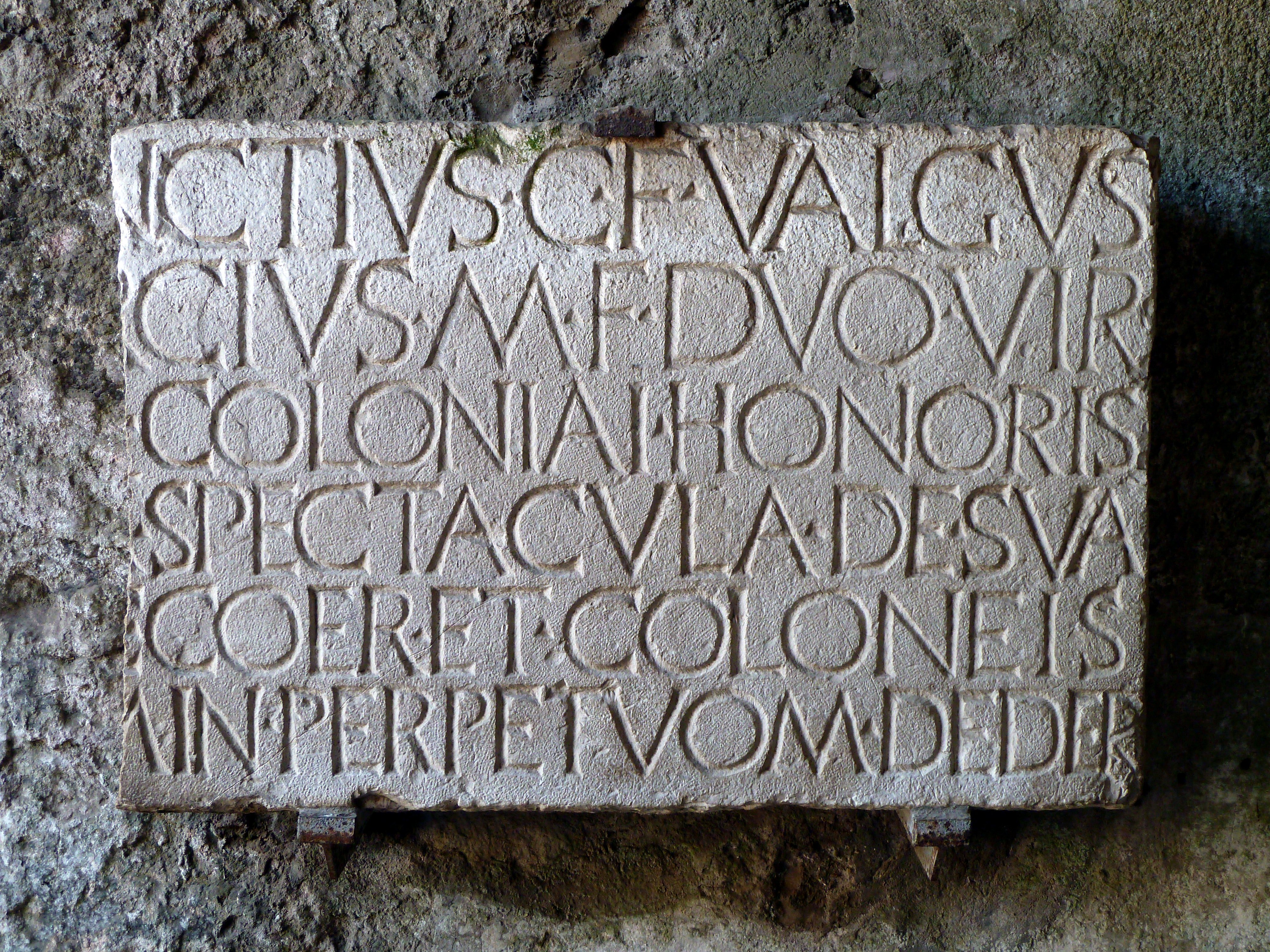 Mounted plaque in the Amphitheatre. It refers to the builders of the stadium, Quinctius Valgus and Marcius Porcius, who funded its construction to advance their political careers.